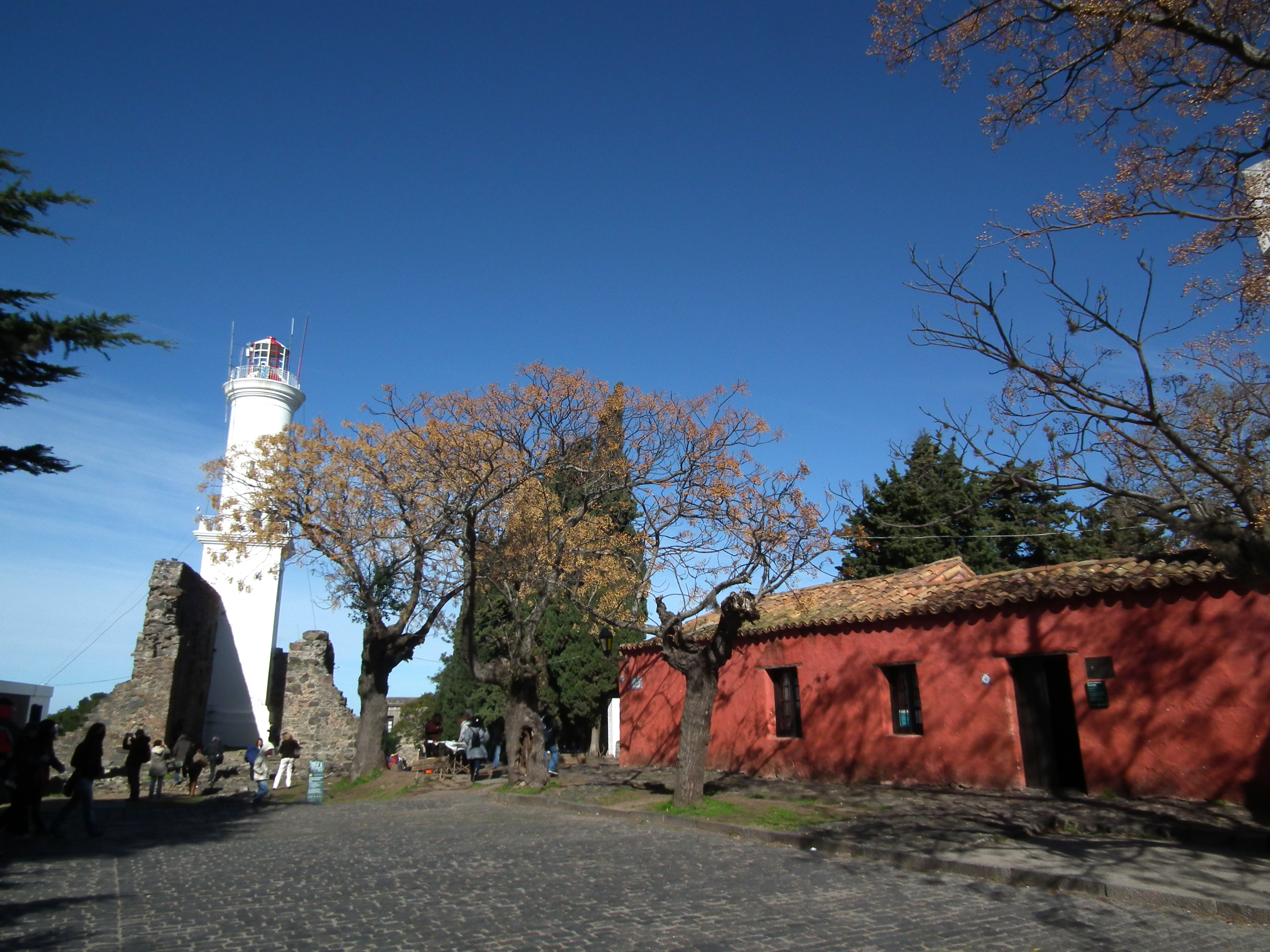 View of the Lighthouse and Nacarello House from the 25 de Mayo Square